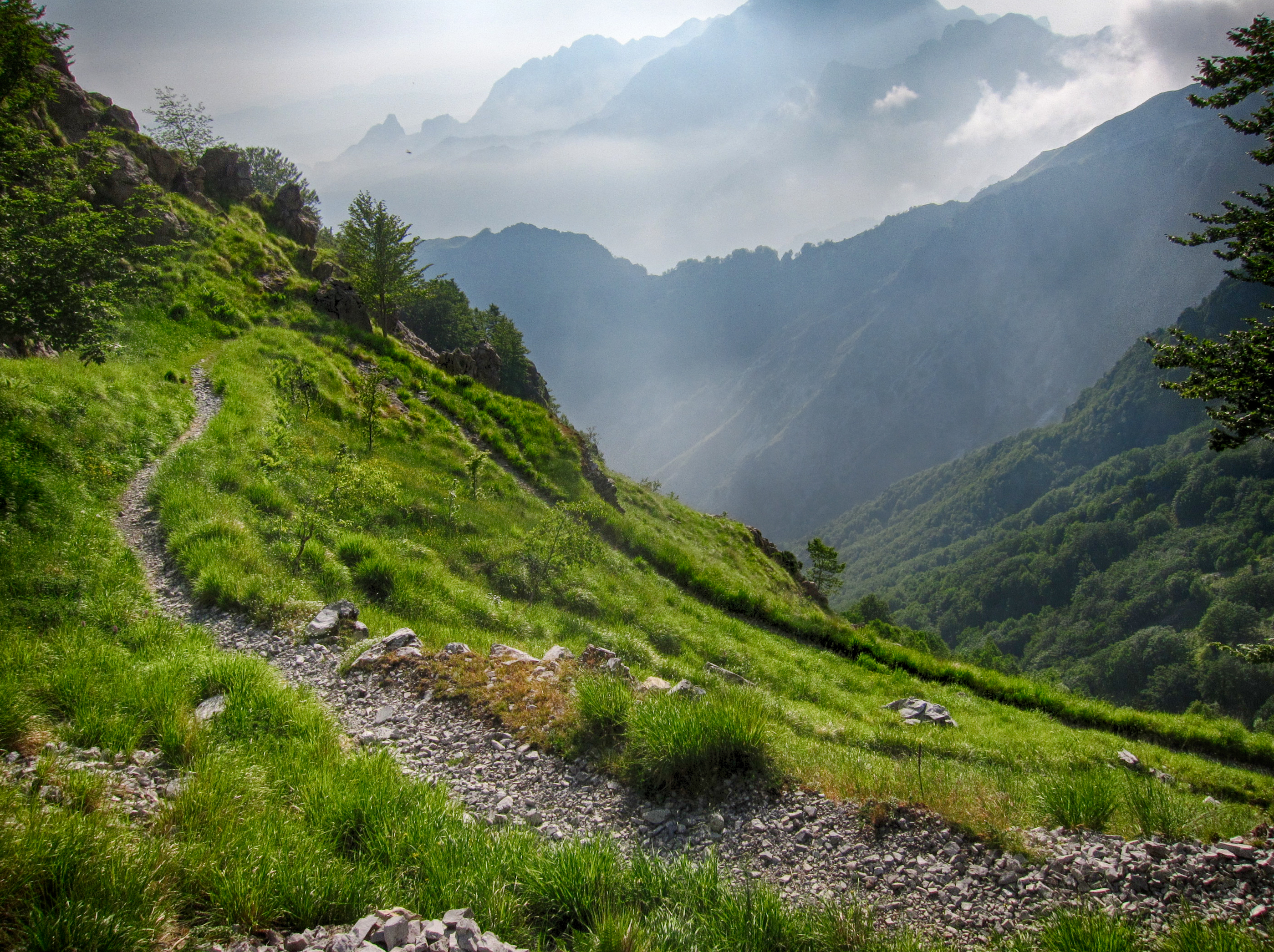 The view of the Alpi Apuane from Finestra Vandelli, with the Via Vandelli